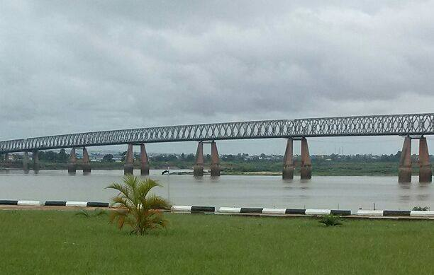 The famous Niger Bridge is associated with Onitsha as its main gateway.